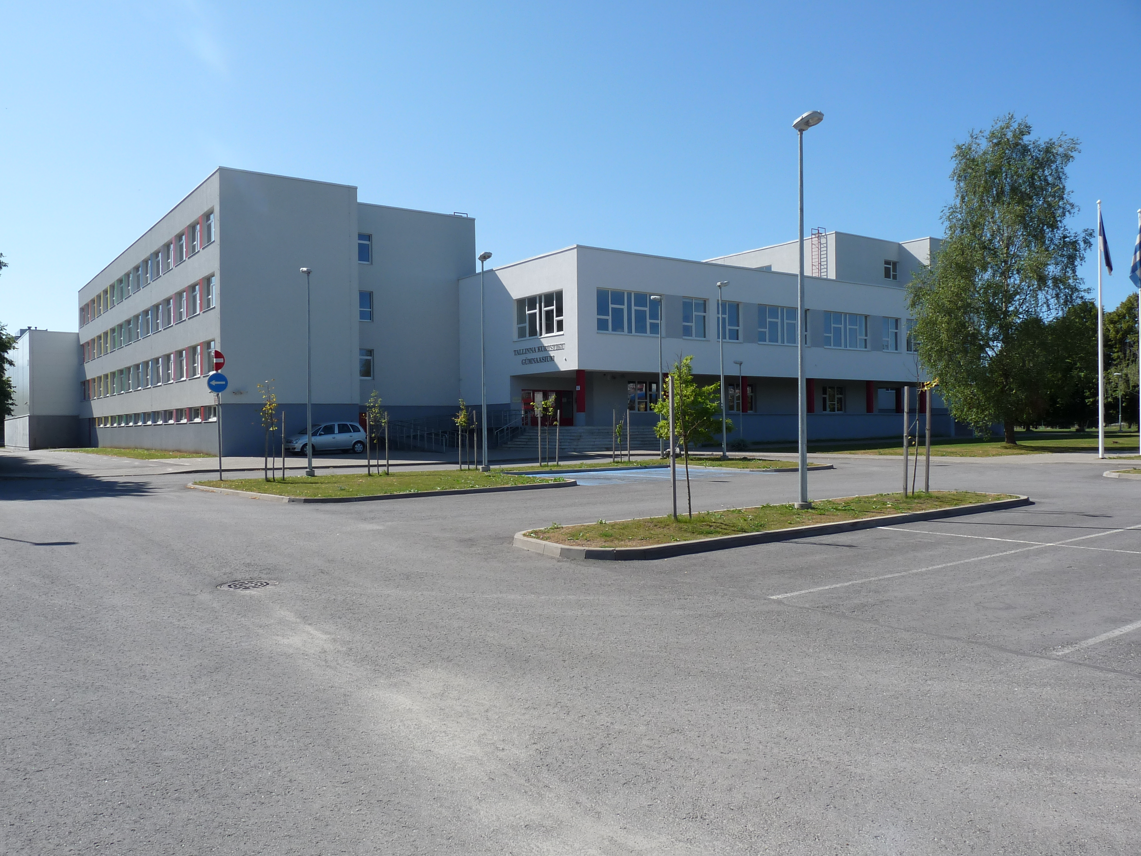 Kuristiku gymnasium in Tallinn, Estonia